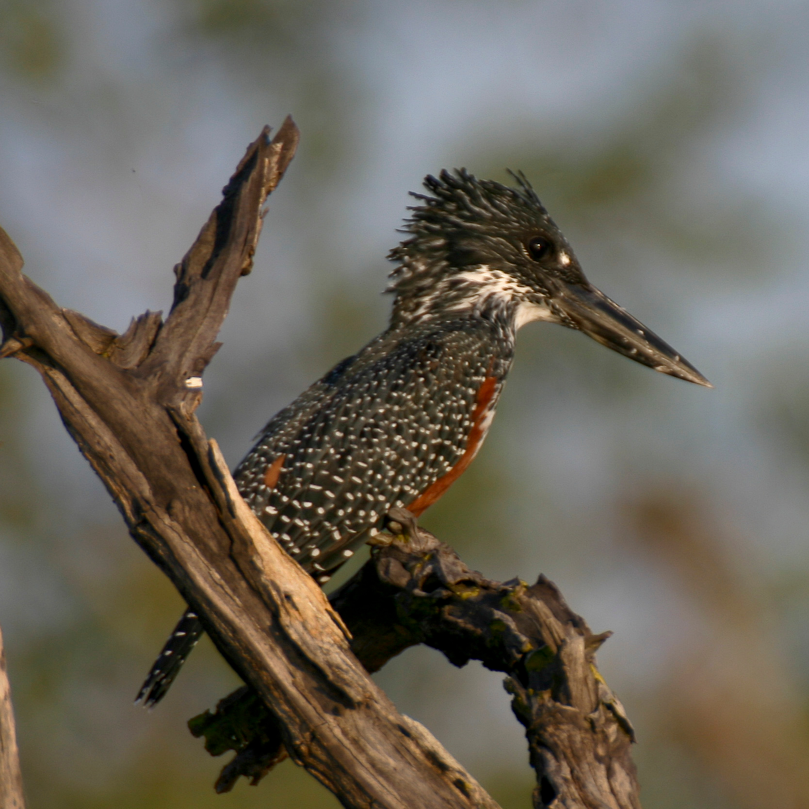 A female Giant Kingfisher perched on a branch at Triangle Estate, Triangle, Zimbabwe